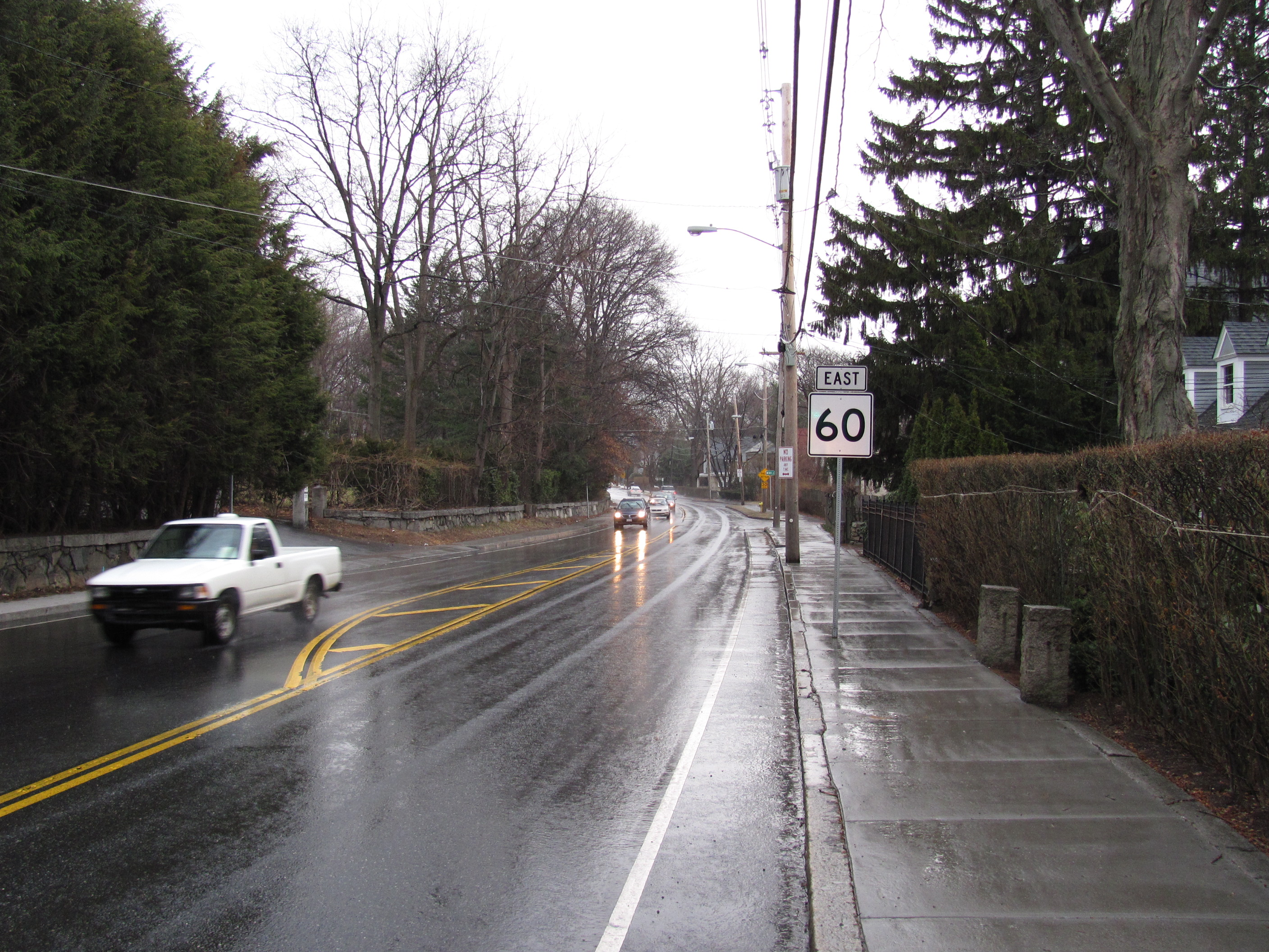 Looking northeast on MA Route 60, Belmont Massachusetts